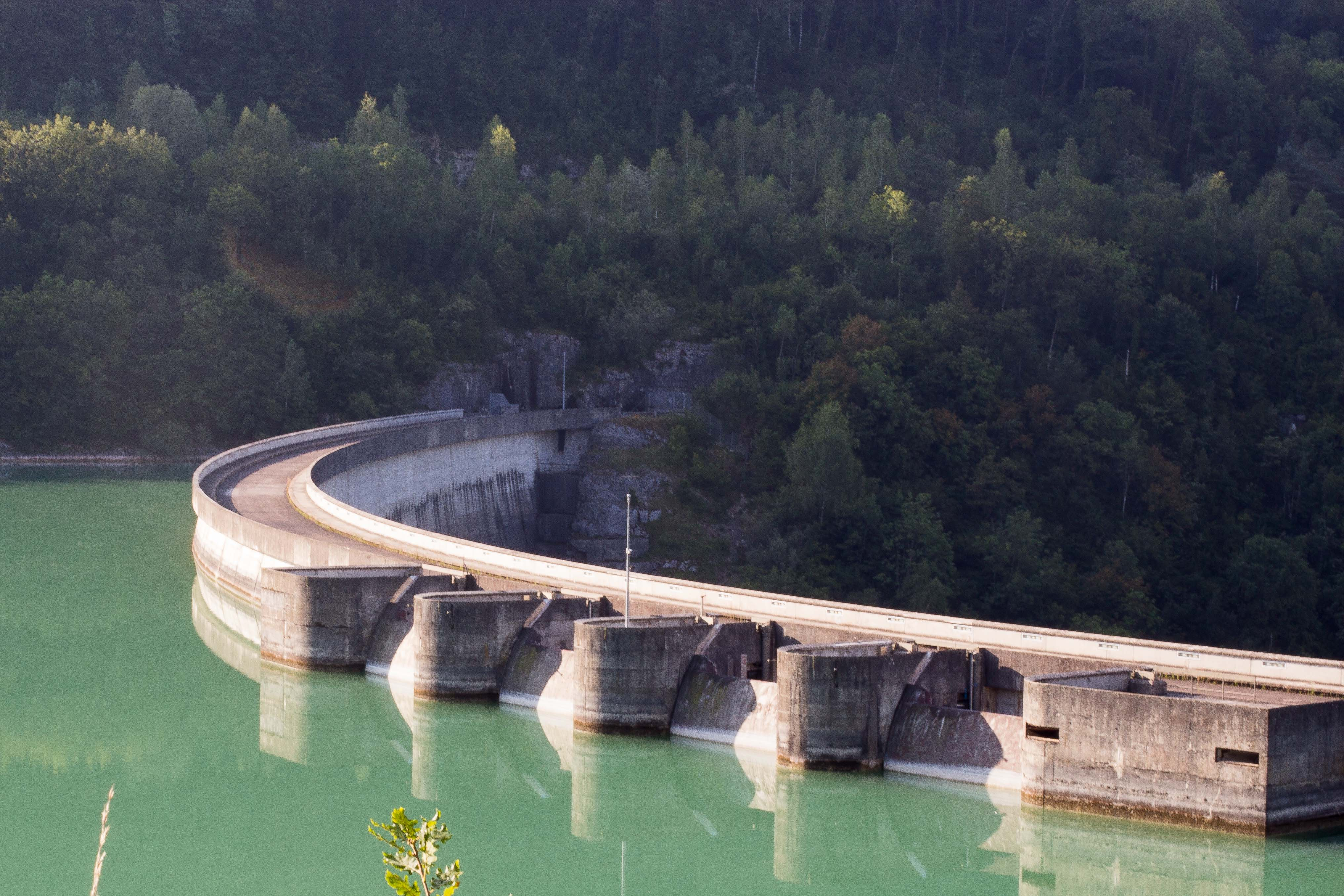 Vouglans dam on Ain River, Jura department, France (upstream)